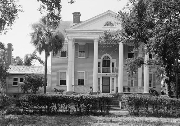 McCleod Plantation (Charleston County, South Carolina) (cropped)